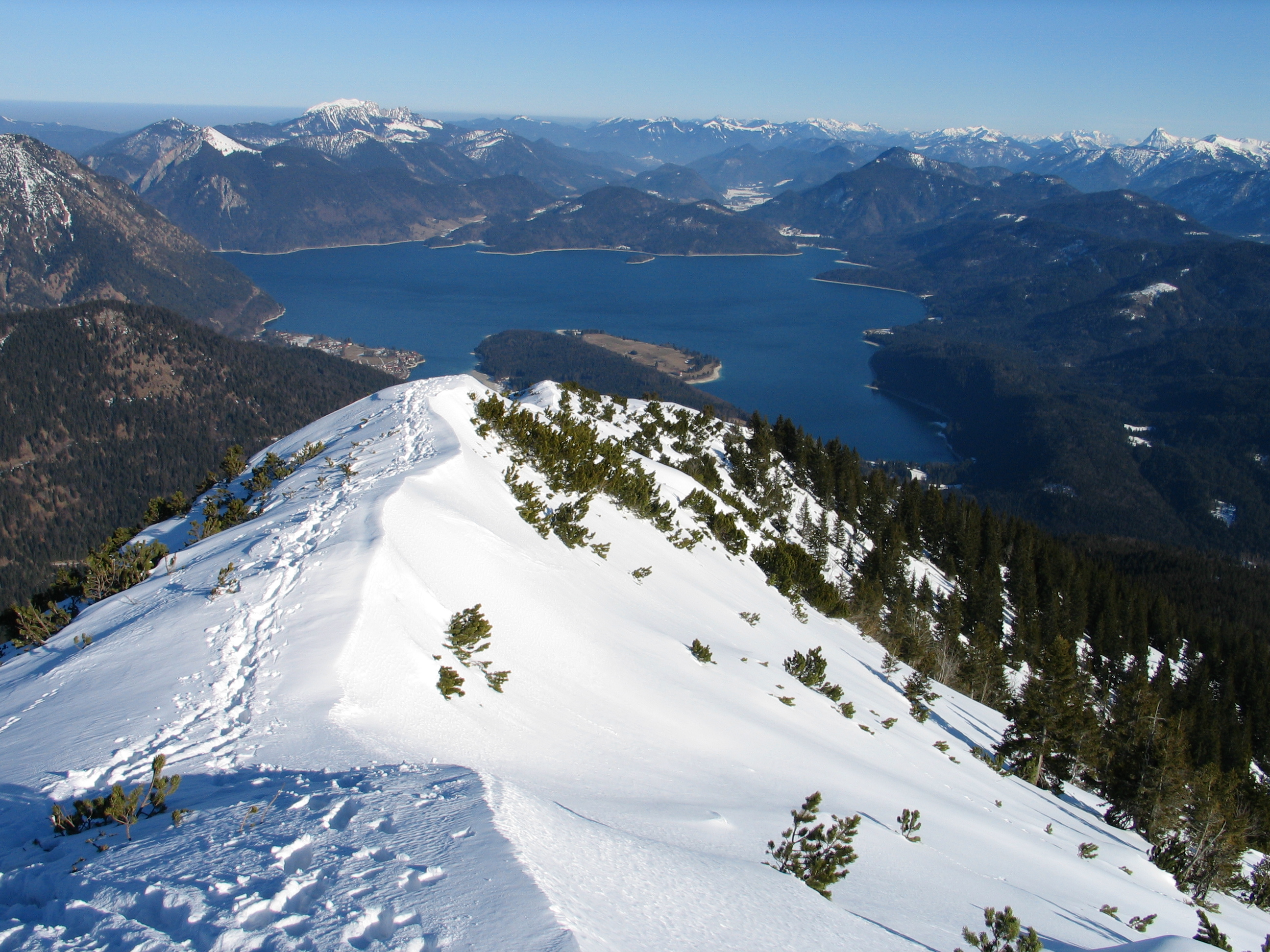 Walchensee